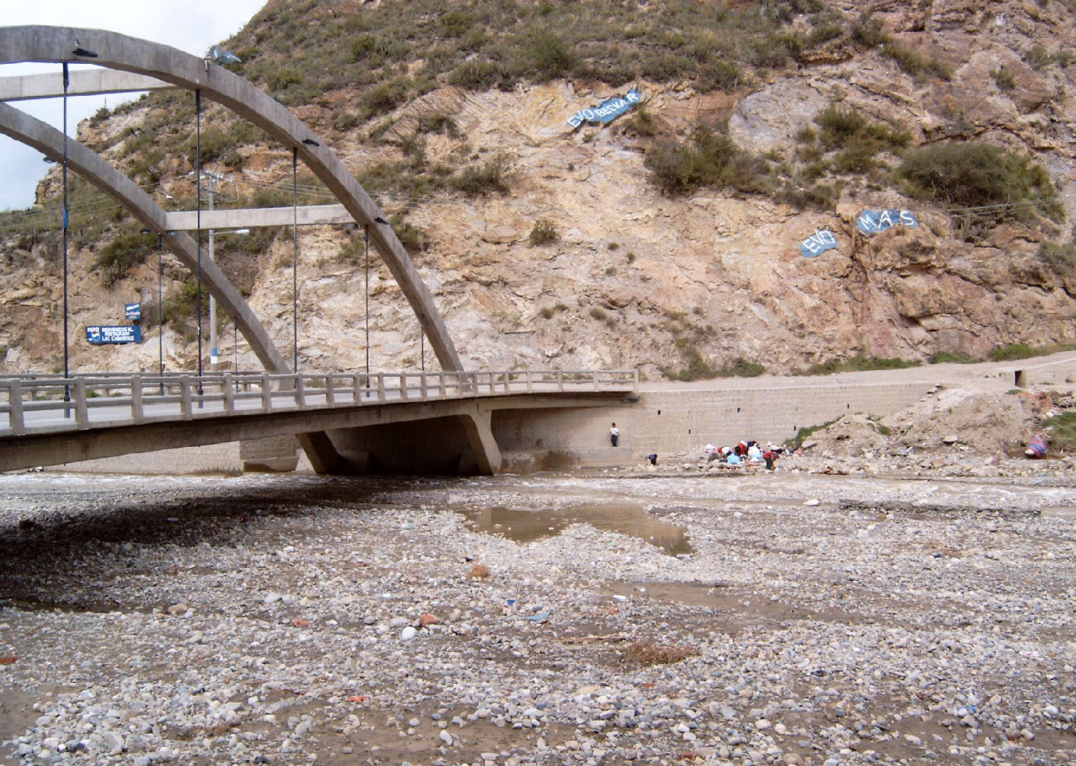 Puente Aranjuez crossing Río Choqueyapu at km 35.3